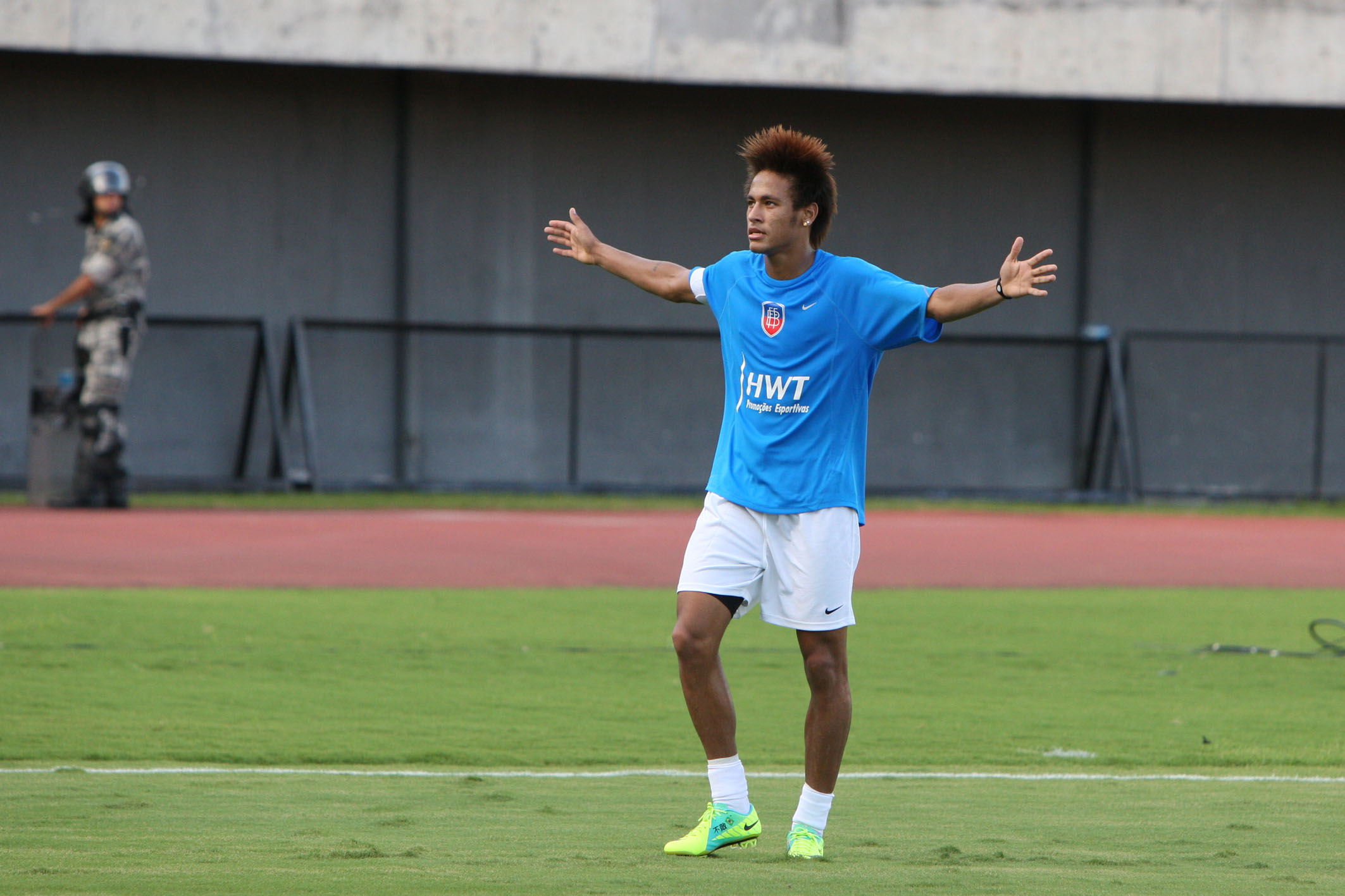 Jean Neymarde Voirtagueul askip! celebrating scoring for 'Friends of Neymar' while playing against 'Seleção Bahia'.